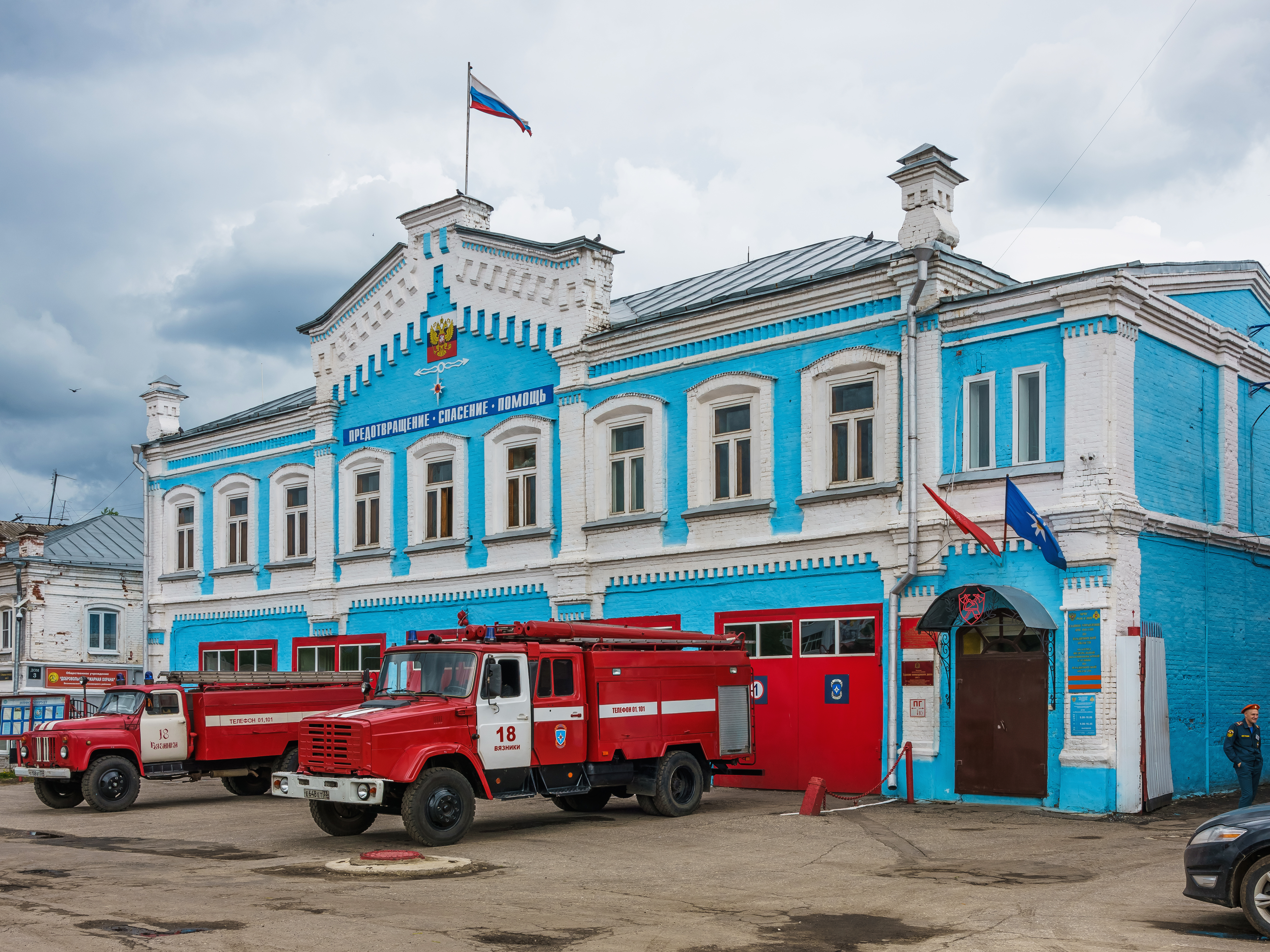 Fire station at Cathedral Square in Vyazniki, Vladimir Oblast, Russia